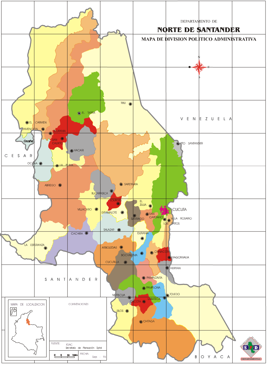 Municipalities of North Santander, Colombia